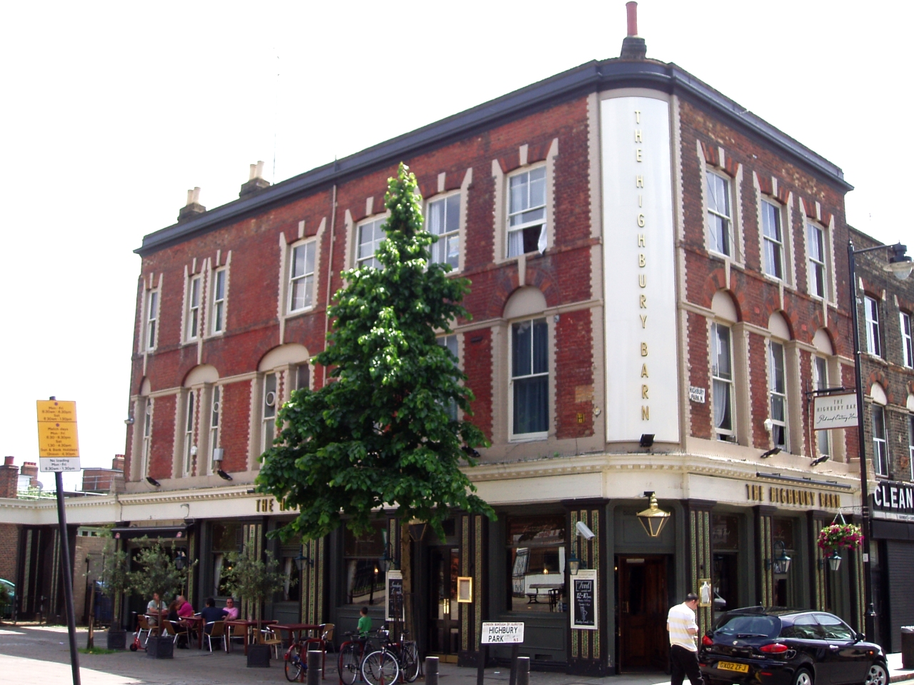 Quite an upmarket looking pub, but then it's quite an upmarket area. Address: 26 Highbury Park. Owner: Punch Taverns [Spirit Group]; Scottish and Newcastle (former); Greenall's (former); Watney Combe Reid (former). Links: London Pubology